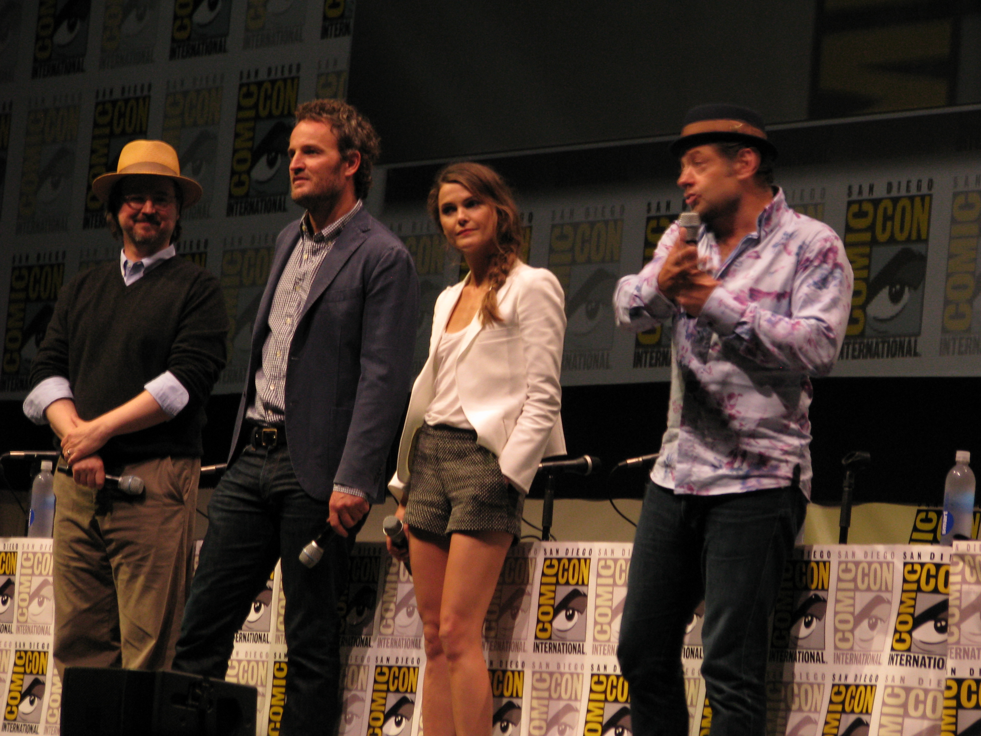 The Dawn of the Planet of the Apes panel with [left to right] director Matt Reeves, Jason Clarke, Keri Russel, and Andy Serkis